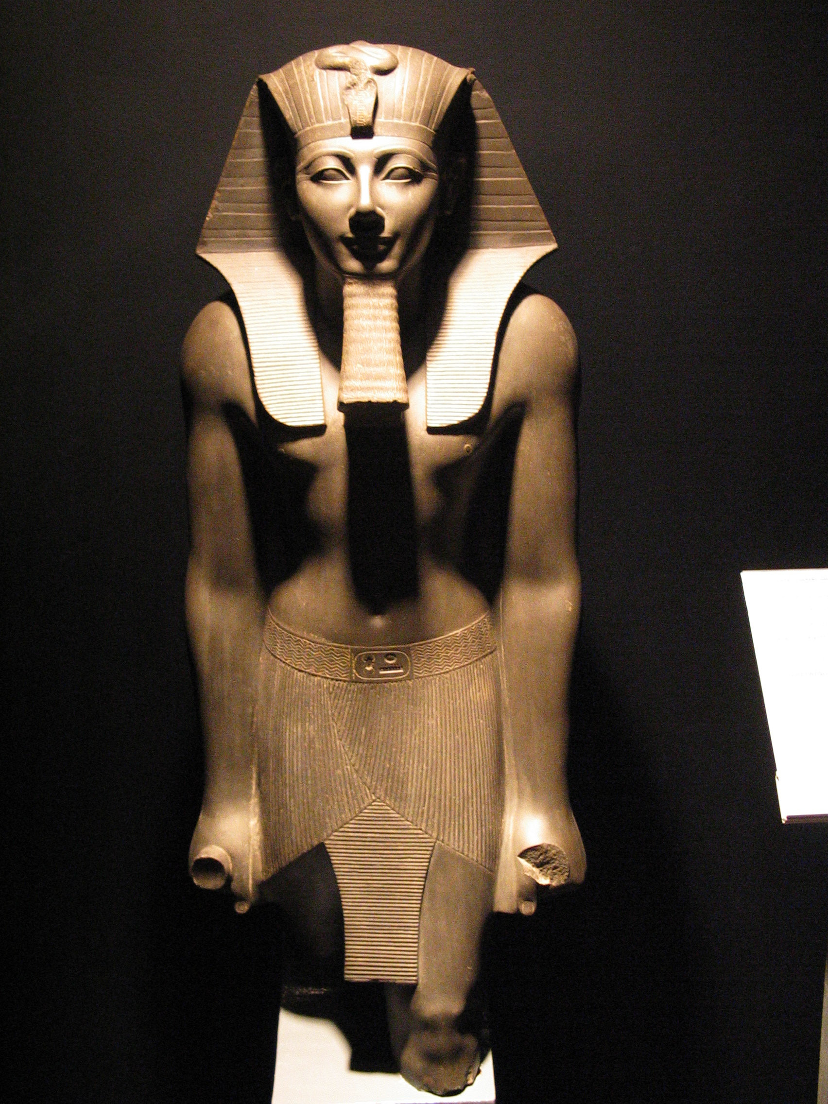 Tuthmosis III basalt statue in Luxor Museum.His name on his belt in his cartouche is Men-kheper-Re; the 'Permanence-Transformation-(of)-Ra, and could be similar to: Steadfastly-[Becomeing-like]-Ra. In reality, his name is: Mn-khepr-Re(a), assuming that is the only order of the pronunciation, or reading. (With Ra, first, his name could be: "Ra's Permanent Manifestation(transformation)". (Note: Tuthmosis III became a powerful leader in the Ancient Near East because of his frequent and very succesful military campaigns into Canaan, Syria and Mesopotamia. He has often been called 'the Napoleon of Egypt.' due both to his success in battle and the short stature of his mummy.)